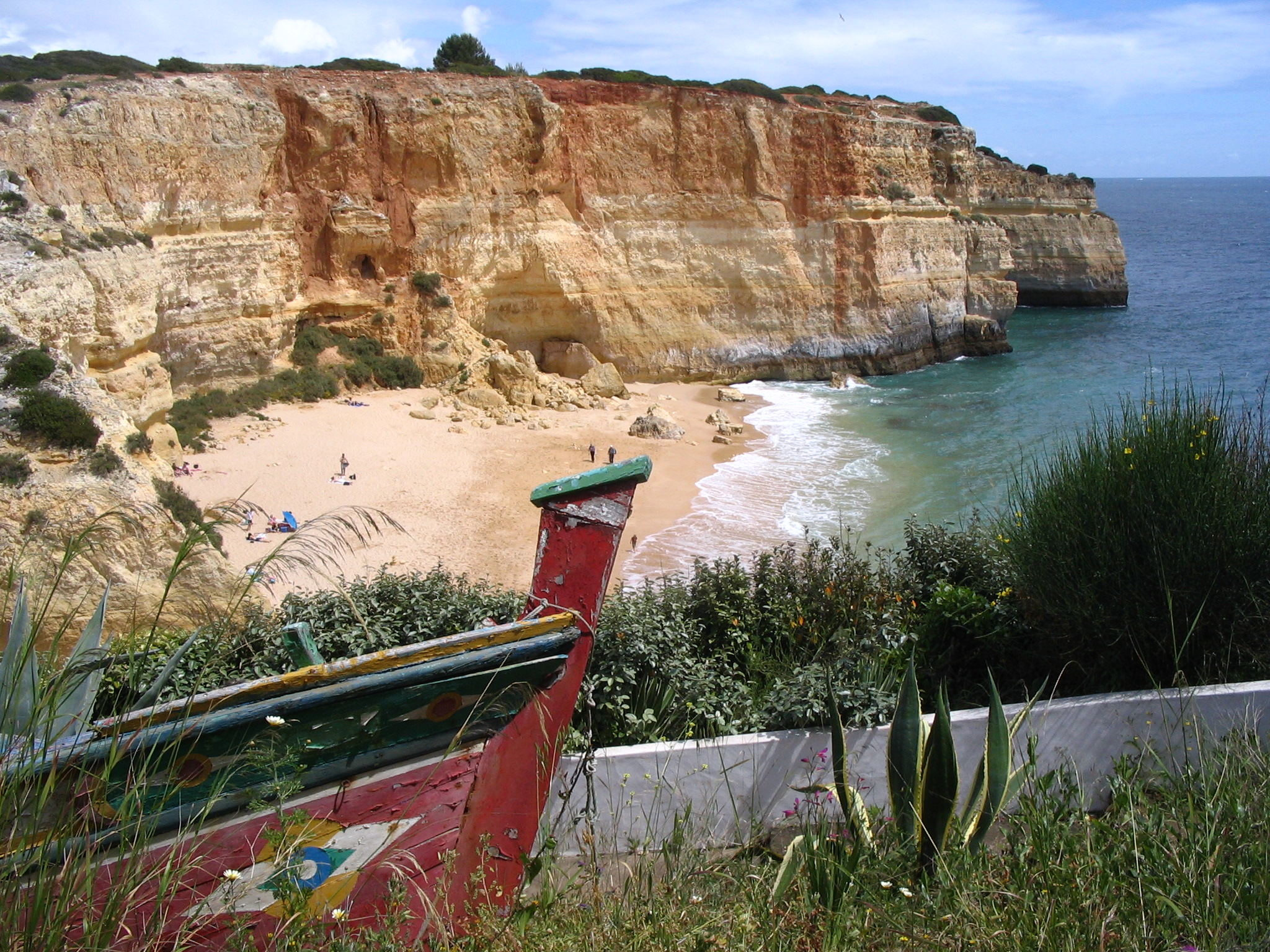 Praia de Benagil - Lagoa (Algarve)